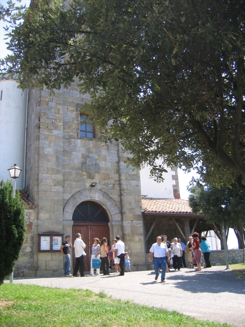 Baptism ceremony in a small town in the Basque Country. This photograph was taken on 2007-08-18 on the Gatika village of the Biscay (Bizkaia) province of the Basque Country (Europe), using a Canon PowerShot S50 camera. The original size was 2592x1944 pixels, it was reduced to the present size (648x486 pixels) using the IrfanView freeware program. It is the eighth print of a series of 8 prints to show the ceremony on small towns of Biscay at the beginning of the XXI century. Bataioko elizkizuna Euskal Herriko herri txiki batean. Argazki hau 2007-08-18an hartu zen Bizkaiko Gatika herrian. Bataioaren zeremonia XXI. mendeko lehenengo urteetan Bizkaiko herri txikietan nolakoa den erakusteko jarritako 8 argazkiren serieko 8.a da